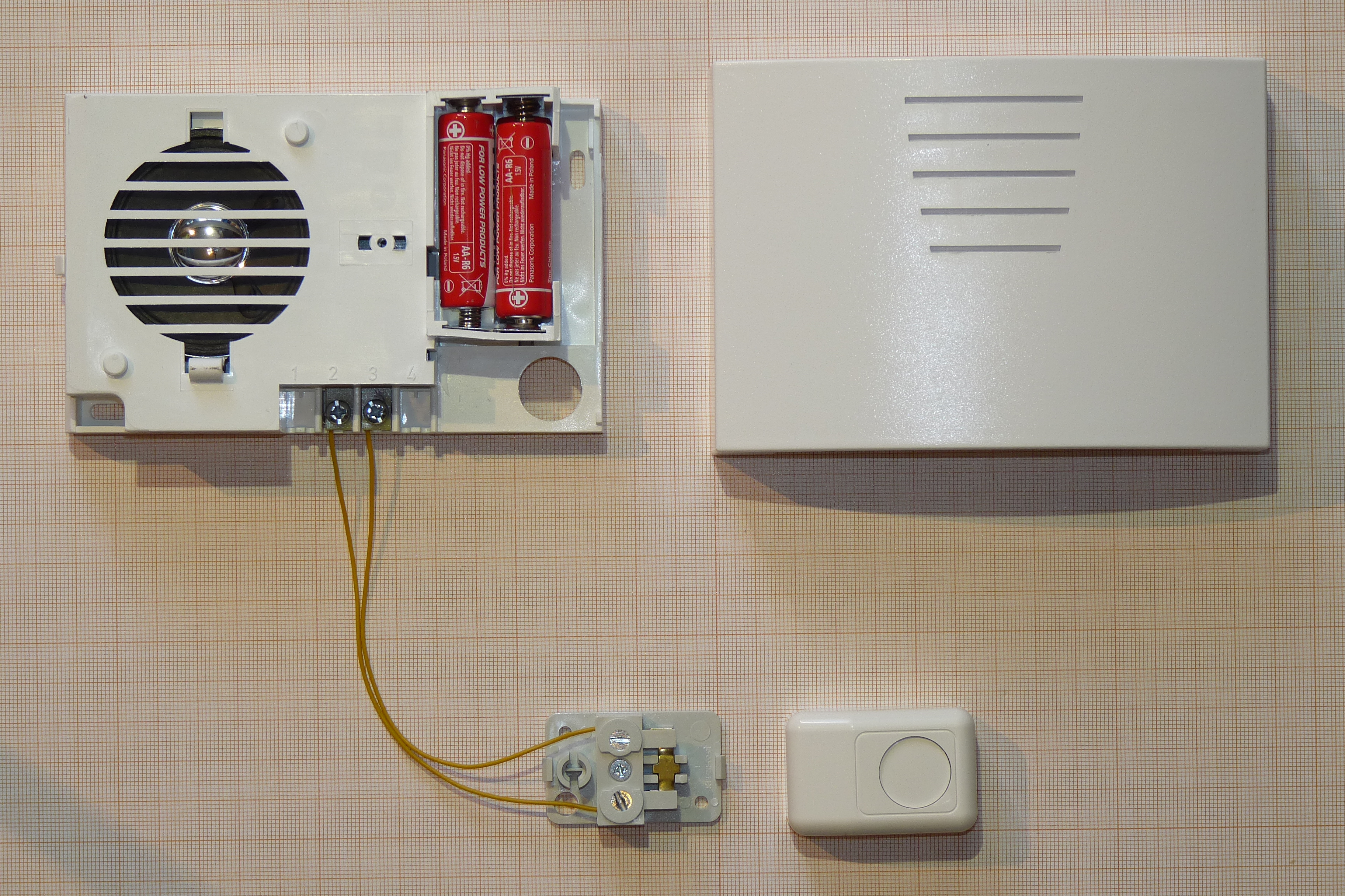 How to wire battery-powered doorbell